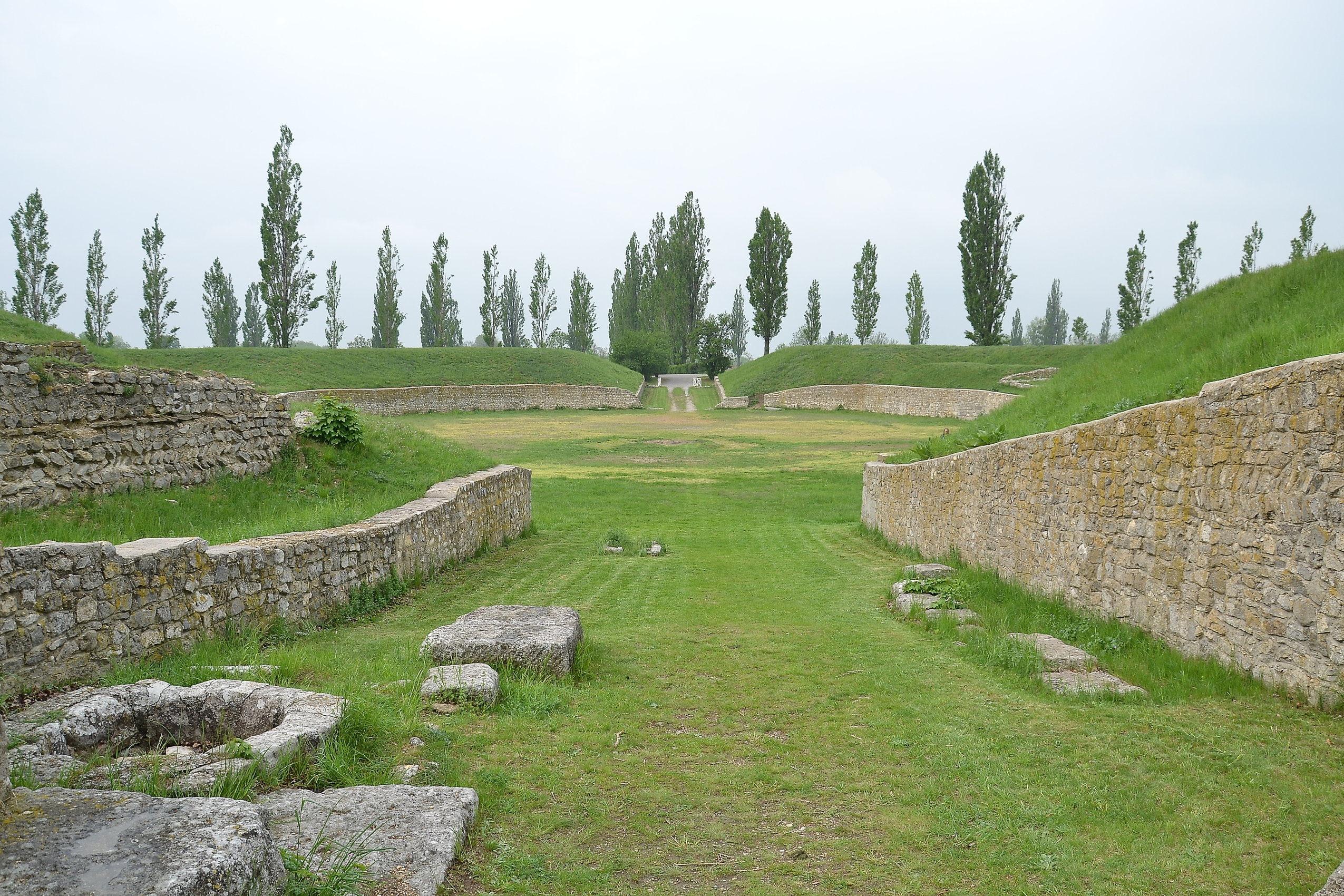 Ancient Roman amphitheatre in Petronell-Carnuntum, Austria Herring-bone masonry in the first wall on tbe left side of the photo